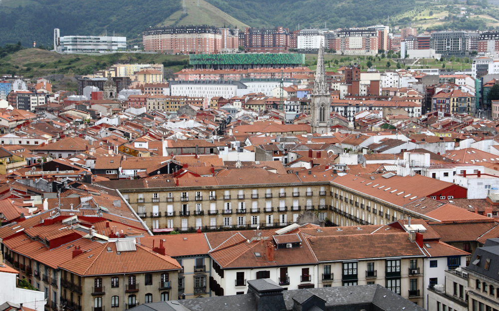 casco viejo